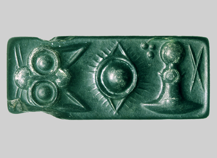 ancient seal, original, currently in the archaeological museum of Iraklion, origin unknown